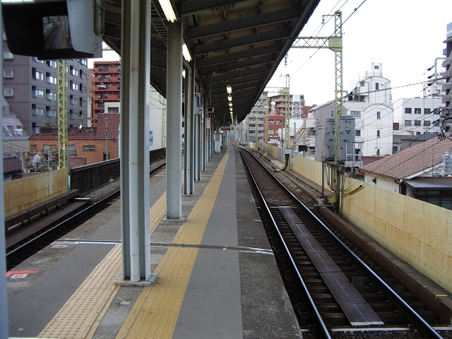 Tobe station on Keikyu-Main line.